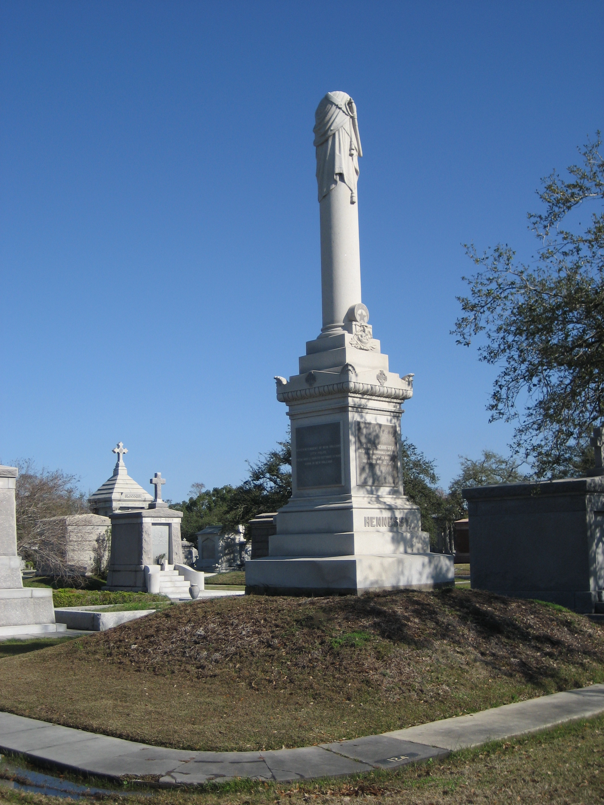 Metairie Cemetery, New Orleans. Memorial tomb of assassinated police chief David Hennessy.